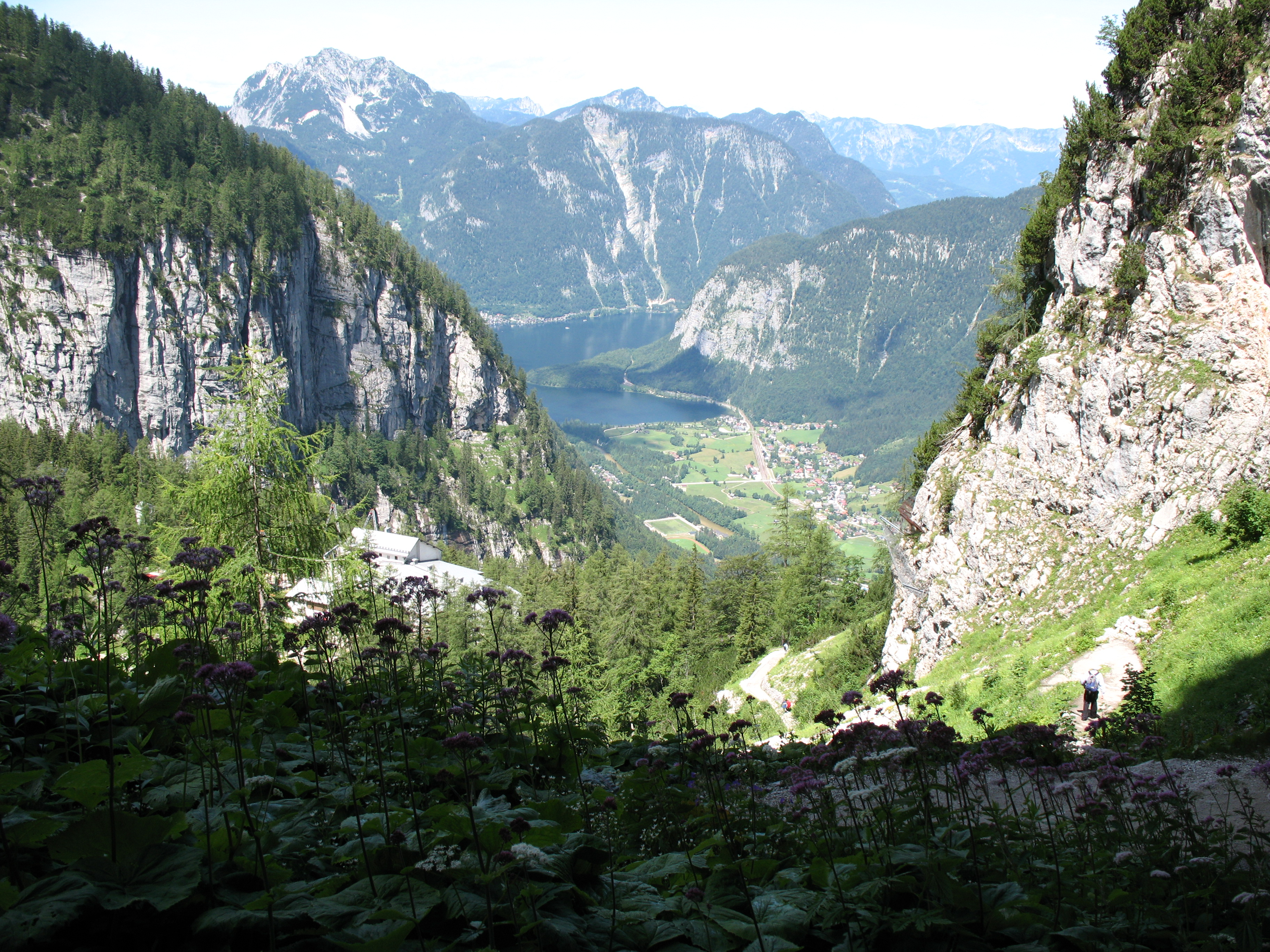 Giant Ice Caves, Obertraun, Austria